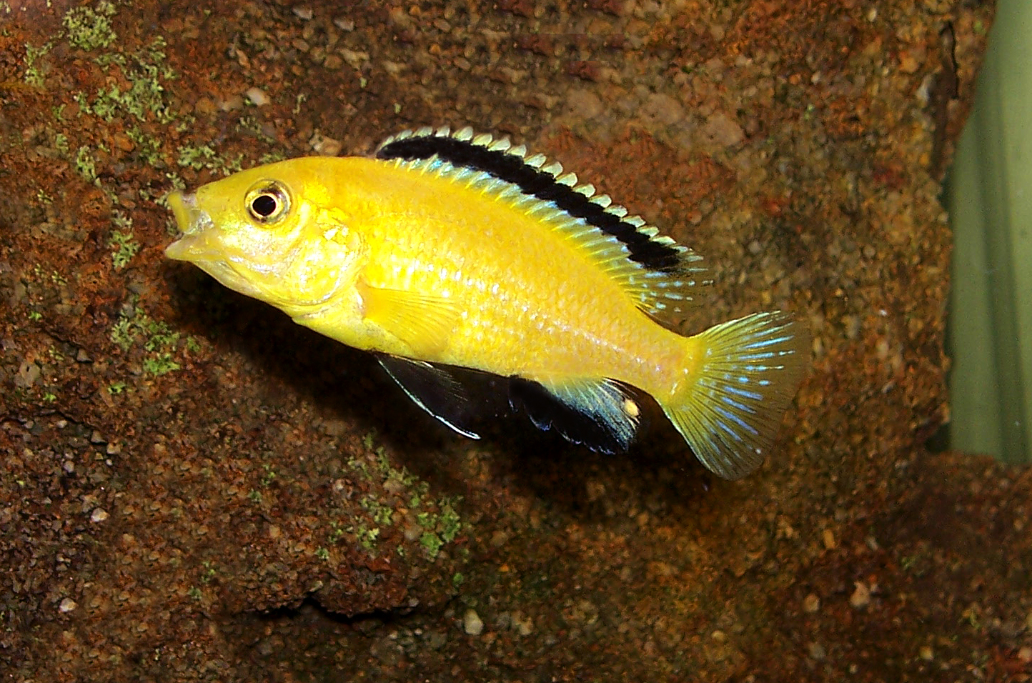 Labidochromis caeruleus Category:Cichlid images